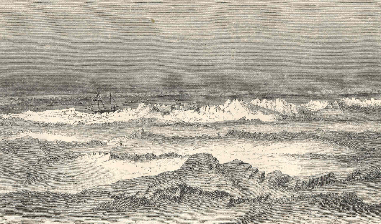 Germania on the Northern Coast of Shannon Subject: Shannon Island (Greenland), Germania (Ship) Geographic Subject: Greenland--Shannon Island Tag: Vessels